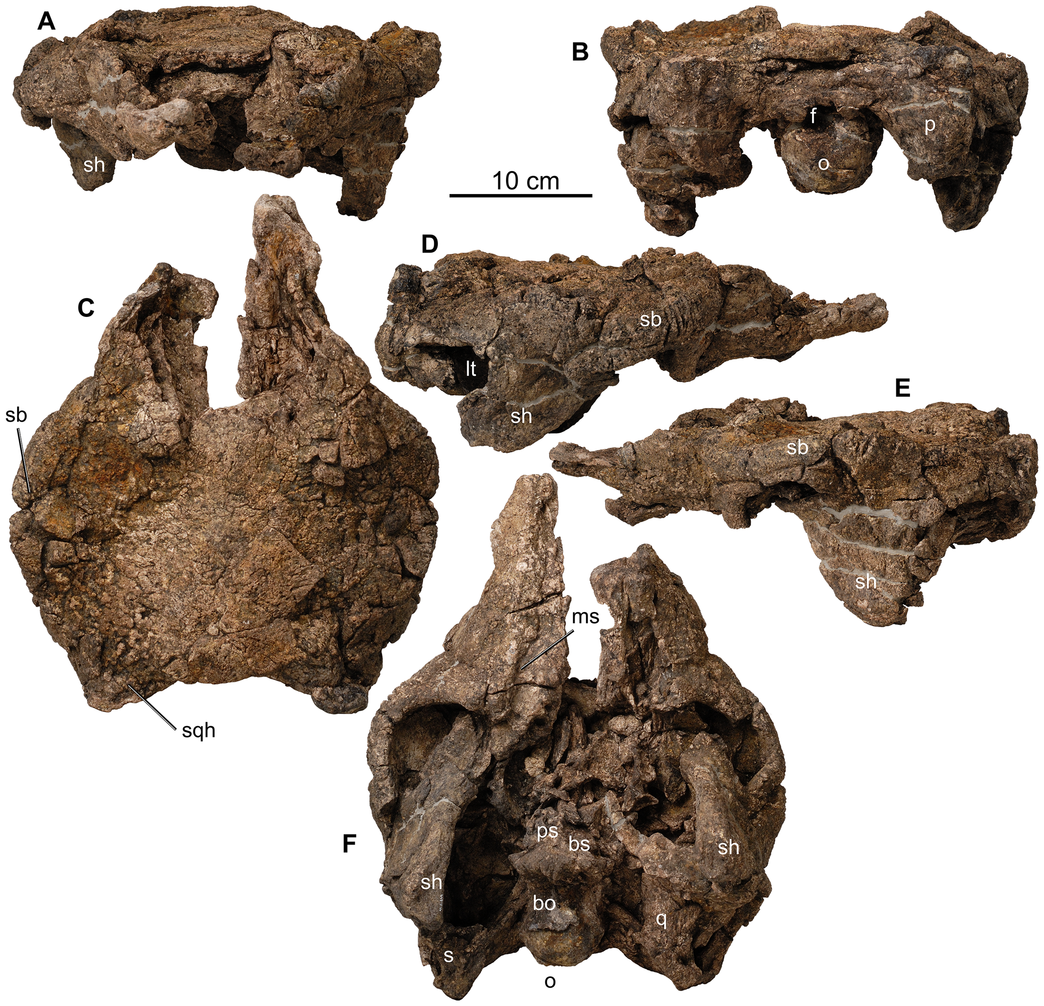 Skull of type of Europelta carbonensis n. gen., n. sp., AR-1-544/10. Partial skull in: (A) anterior view, (B) posterior view, (C) dorsal view, (D) right lateral view, (E) left lateral view, and (F) ventral view. Abbreviations: bo = basioccipital, bs = basisphenoid, f = foramen magnum, lt = lower temporal fenestra, o = occipital condyle, p = paraocciptal process, ps = parasphenoid, q = quadrate, s = squamosal, sb = supraorbital boss, sh = suborbital horn, sqh = squamosal horn.